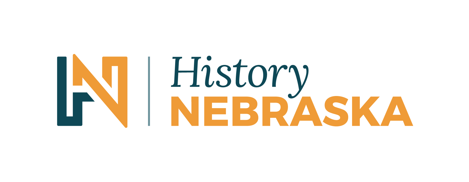 History Nebraska Logo 2018